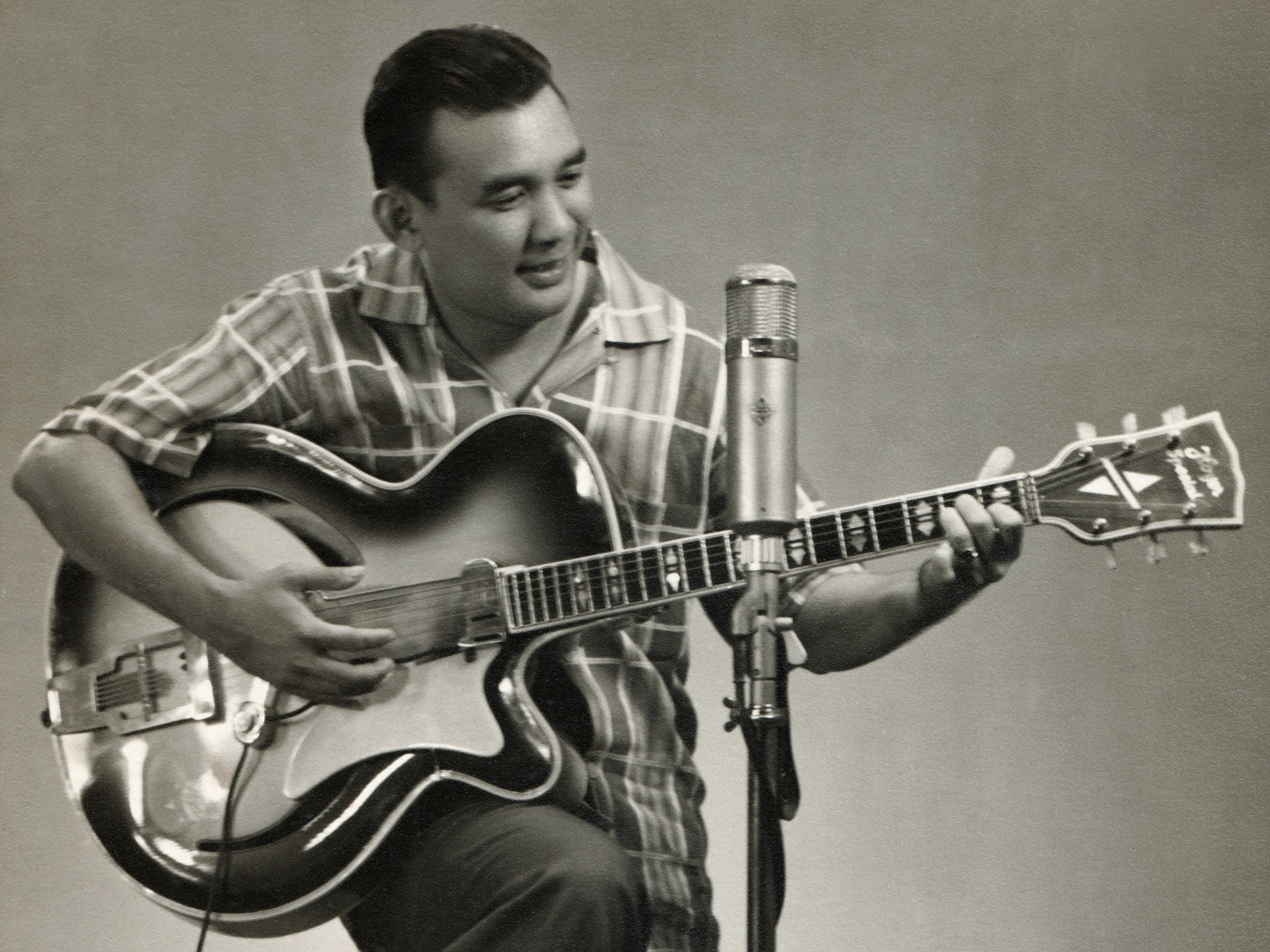 Batak singer Gordon Tobing (c. 1960), by Tati Studios